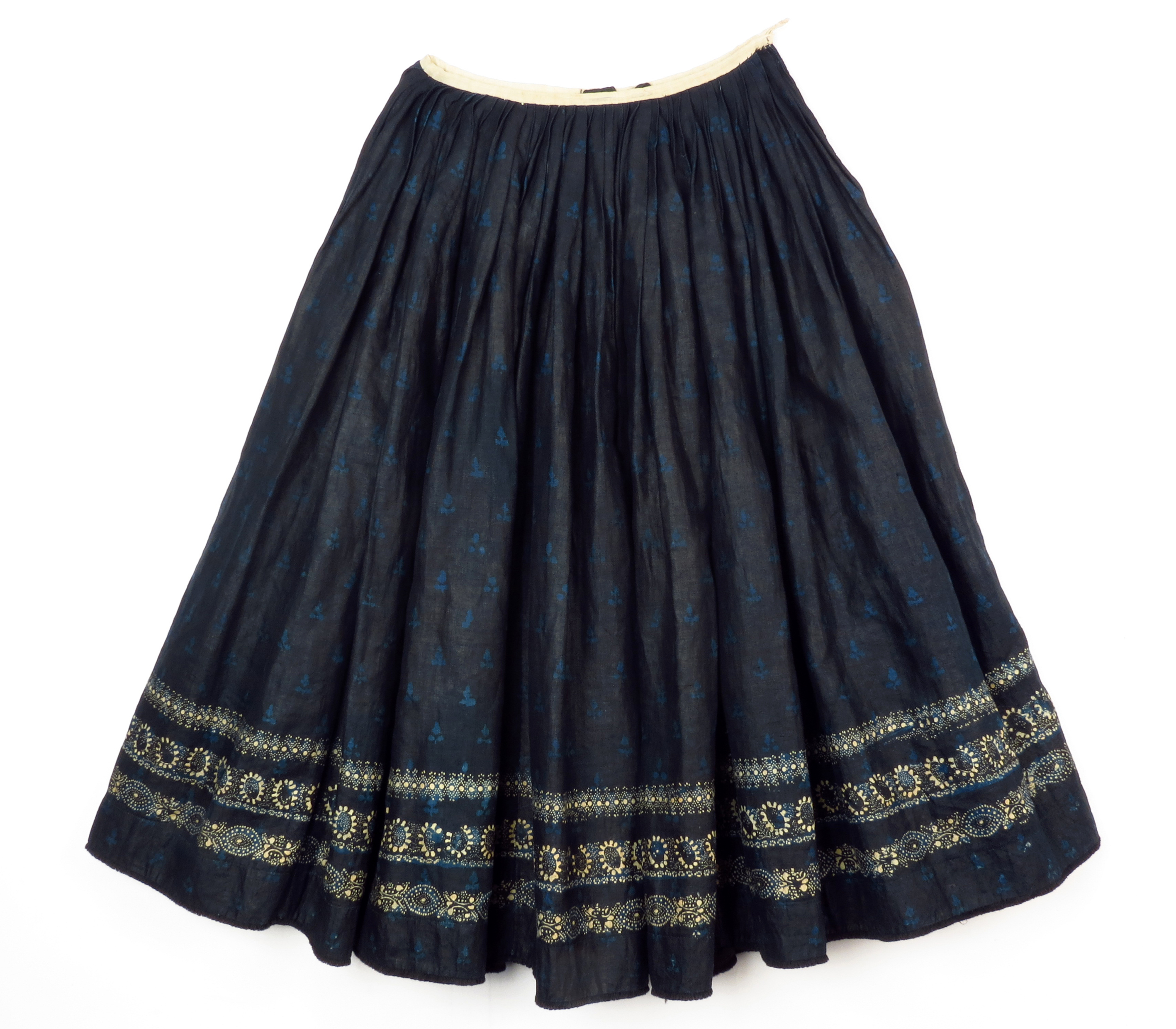 Dark blue skirt with floral pattern. Fabric: linen canvas, indigo dyed and printed. Locality: Nowe Bystre. Ethnographic region: Podhale. The collection of The State Ethnographic Museum in Warsaw. PME 1947